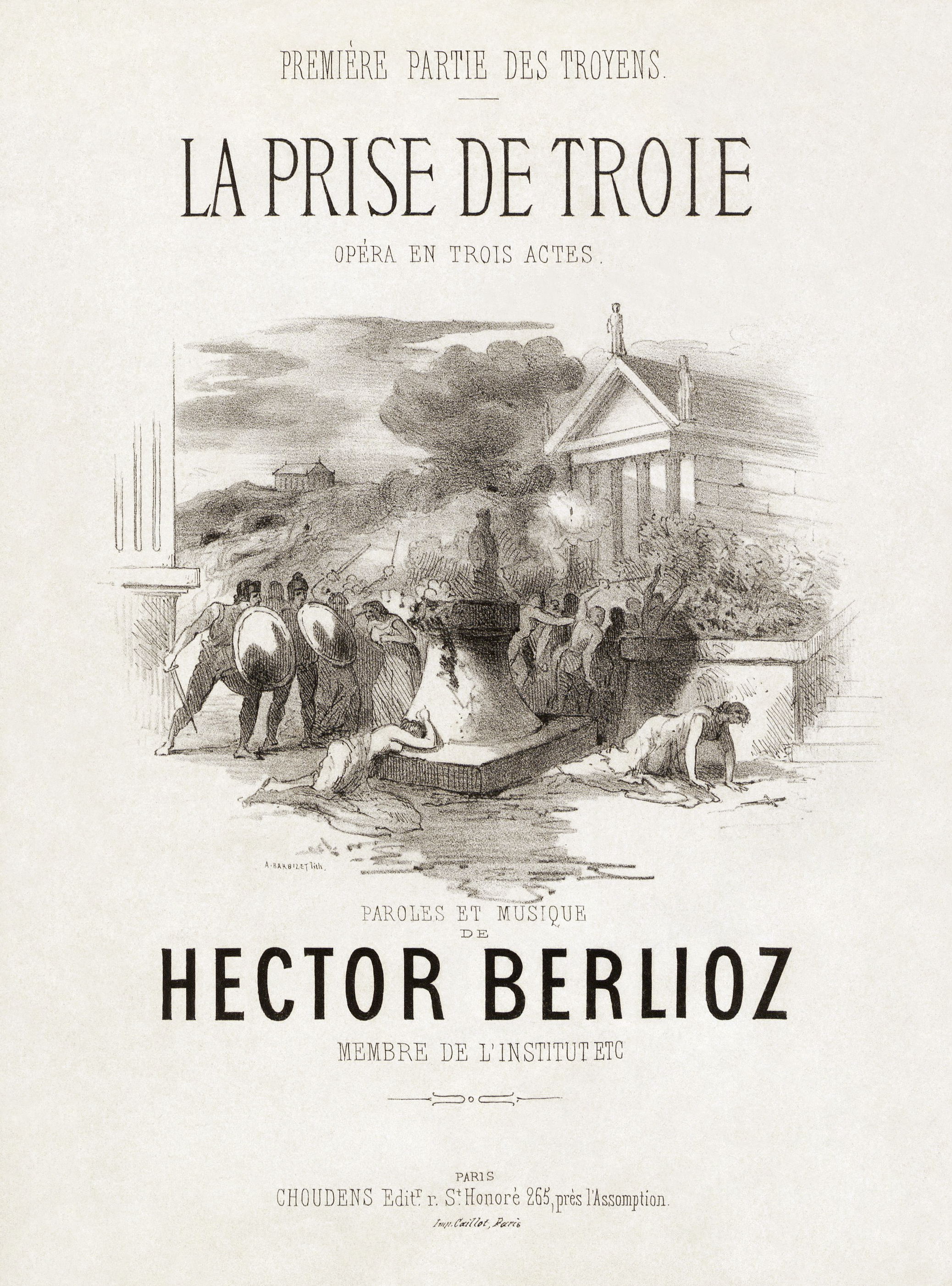 Cover to a first edition of La Prise de Troie from Les Troyens, second version, first edition, third state according to The vocal score to Les Troyens was published in two halves, with individual illustrations for each half and a general illustration for the opera as a whole which is exactly the same in both halves. Berlioz, Hector, 1803-1869. La prise de Troie : opéra en trois actes / paroles et musique de Hector Berlioz. Paris : Choudens, [1864?].